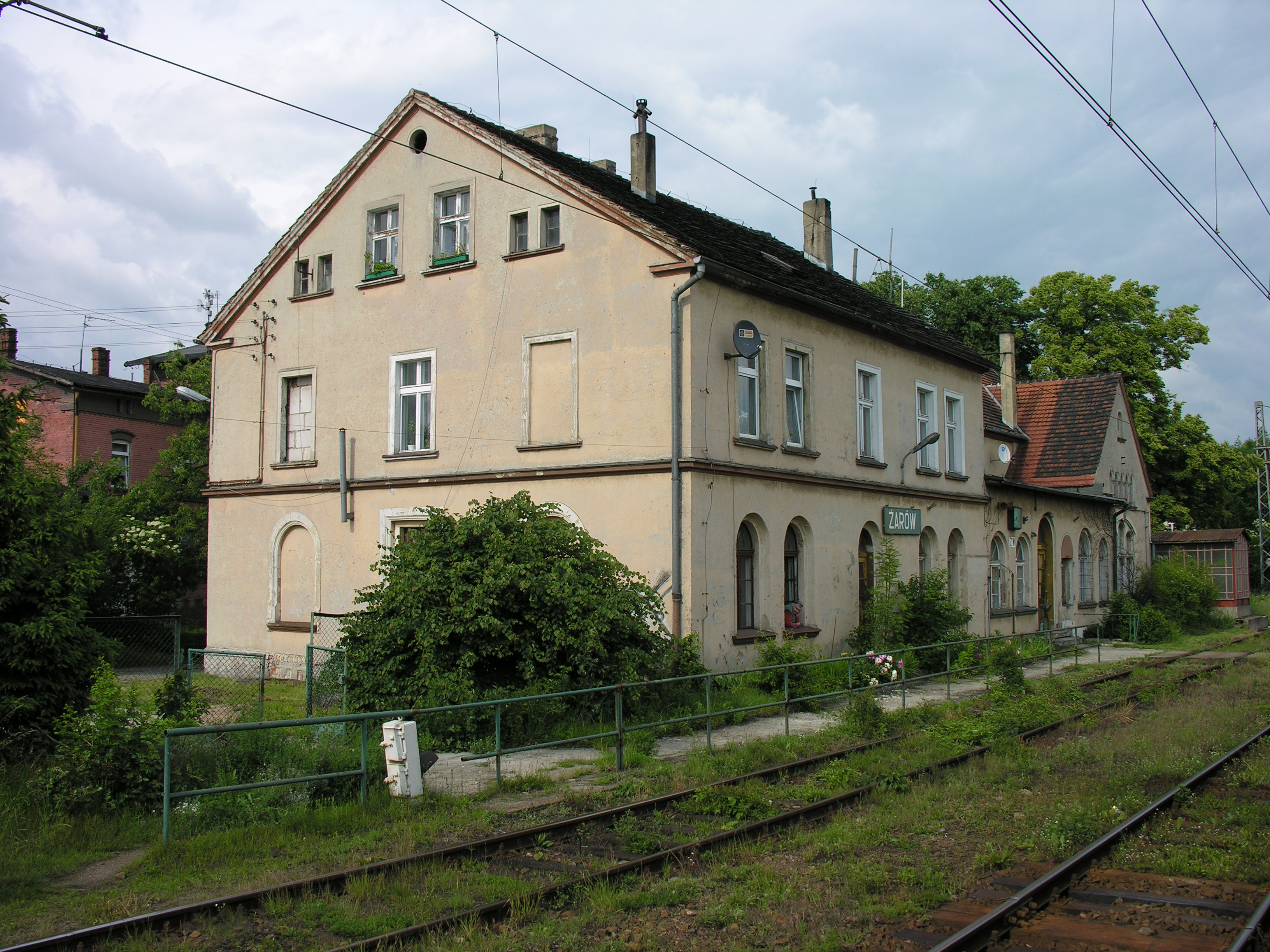 Żarów. Stacja kolejowa